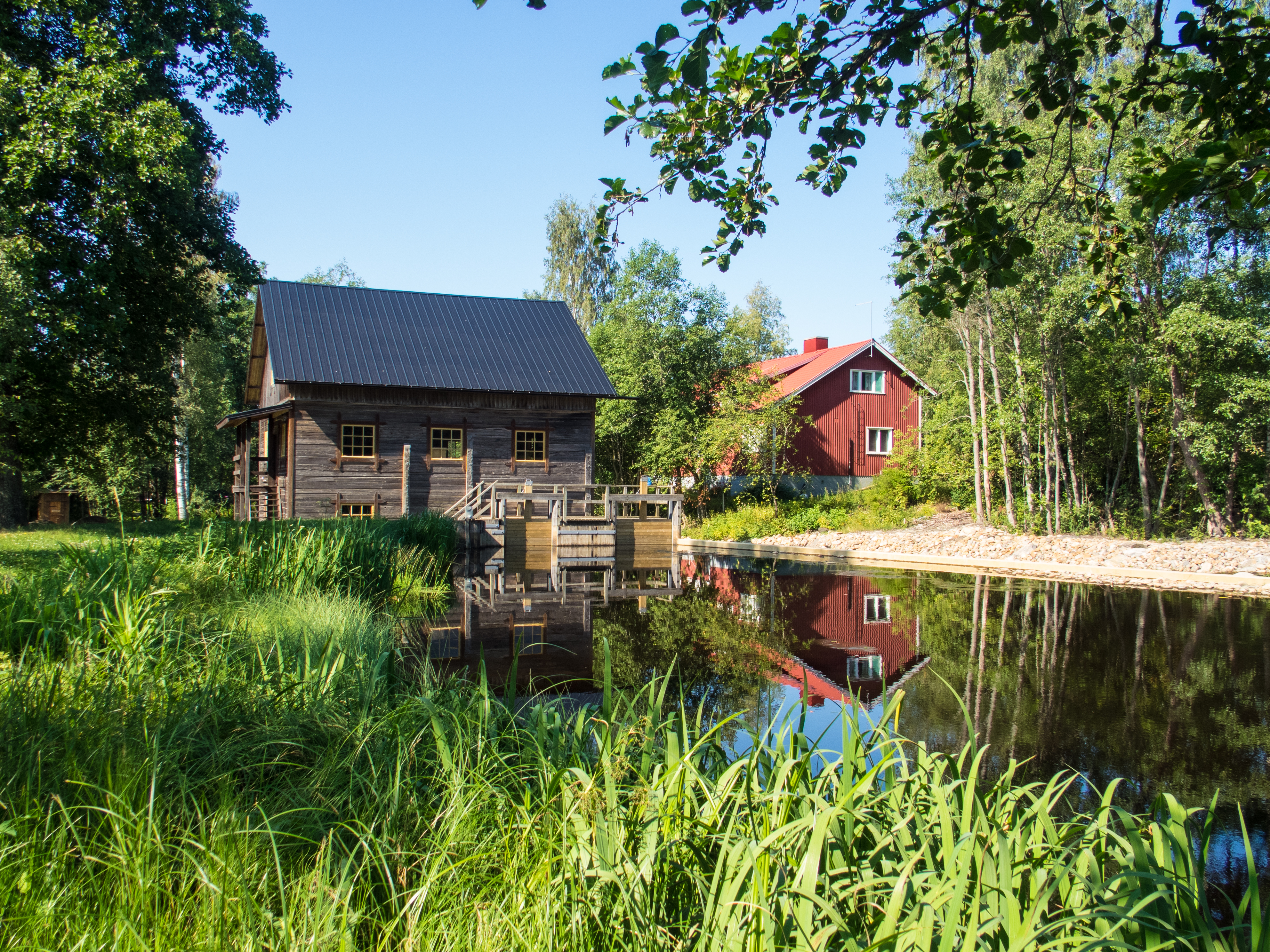 Äijän mylly, old mill in Koski, Kullaa, Ulvila, Finland